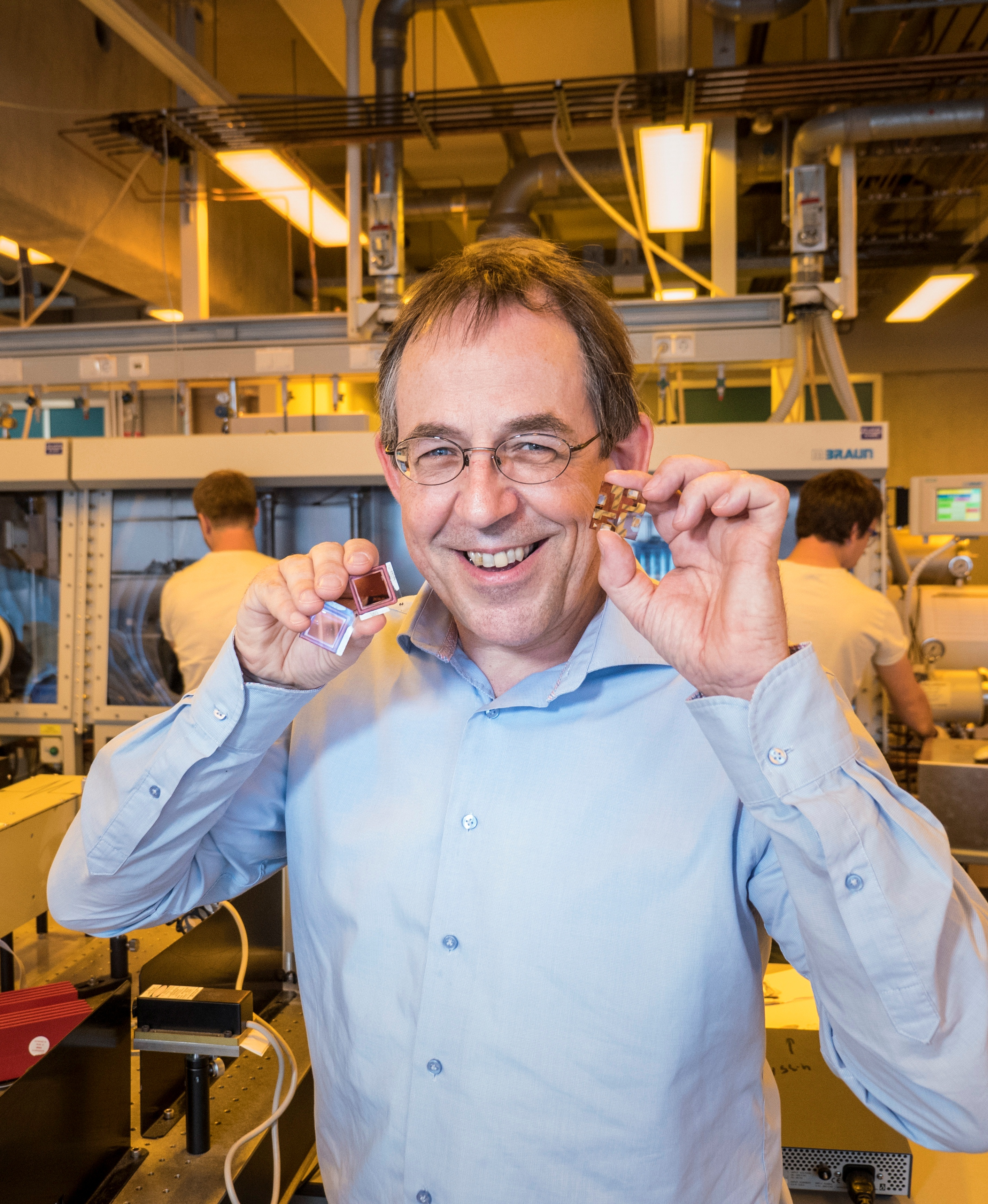 Dutch physicist and chemist René Janssen (2015)